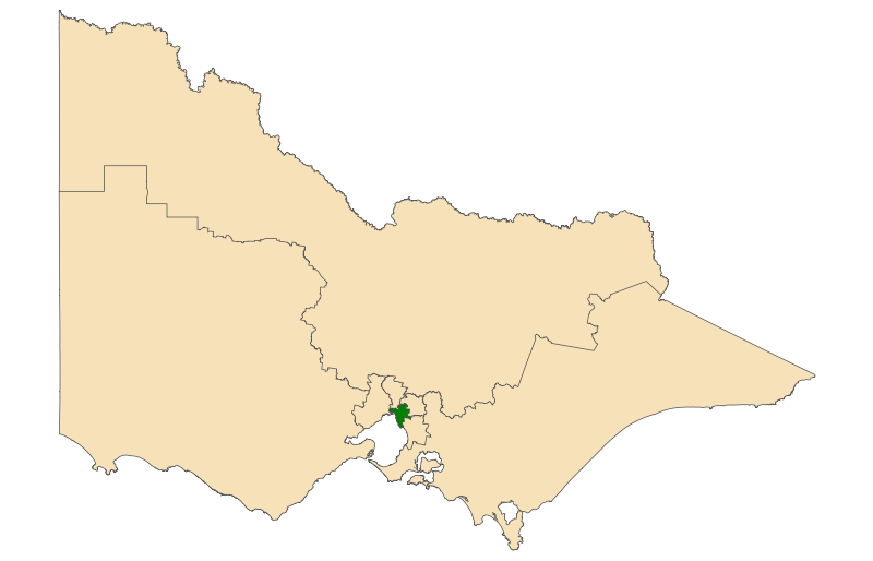 Location of the Victorian Legislative Council Region of Southern Metropolitan (dark green).